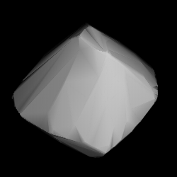 3D convex shape model of 1430 Somalia, computed using light curve inversion techniques. J. Hanuš, J. Ďurech, M. Brož, B. D. Warner (June 2011). "A study of asteroid pole-latitude distribution based on an extended set of shape models derived by the lightcurve inversion method". Astronomy and Astrophysics 530: A134. ISSN 0004-6361. arXiv